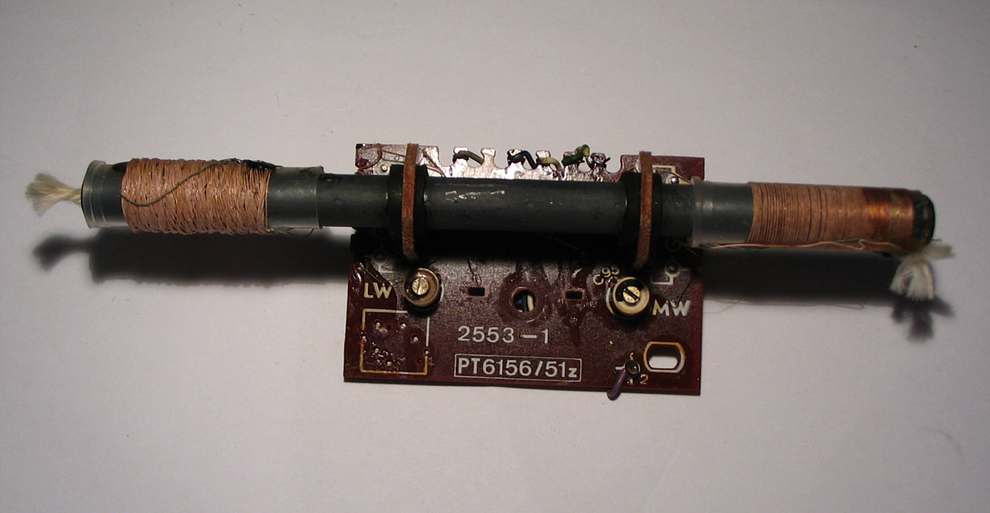 Ferrite antenna for LW and MW bands, used as a receiving antenna in an AM radio receiver. It has separate windings for each of the bands.